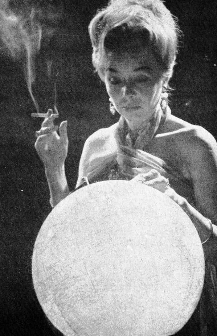 Duša Počkaj (1924-1982), Slovene actress